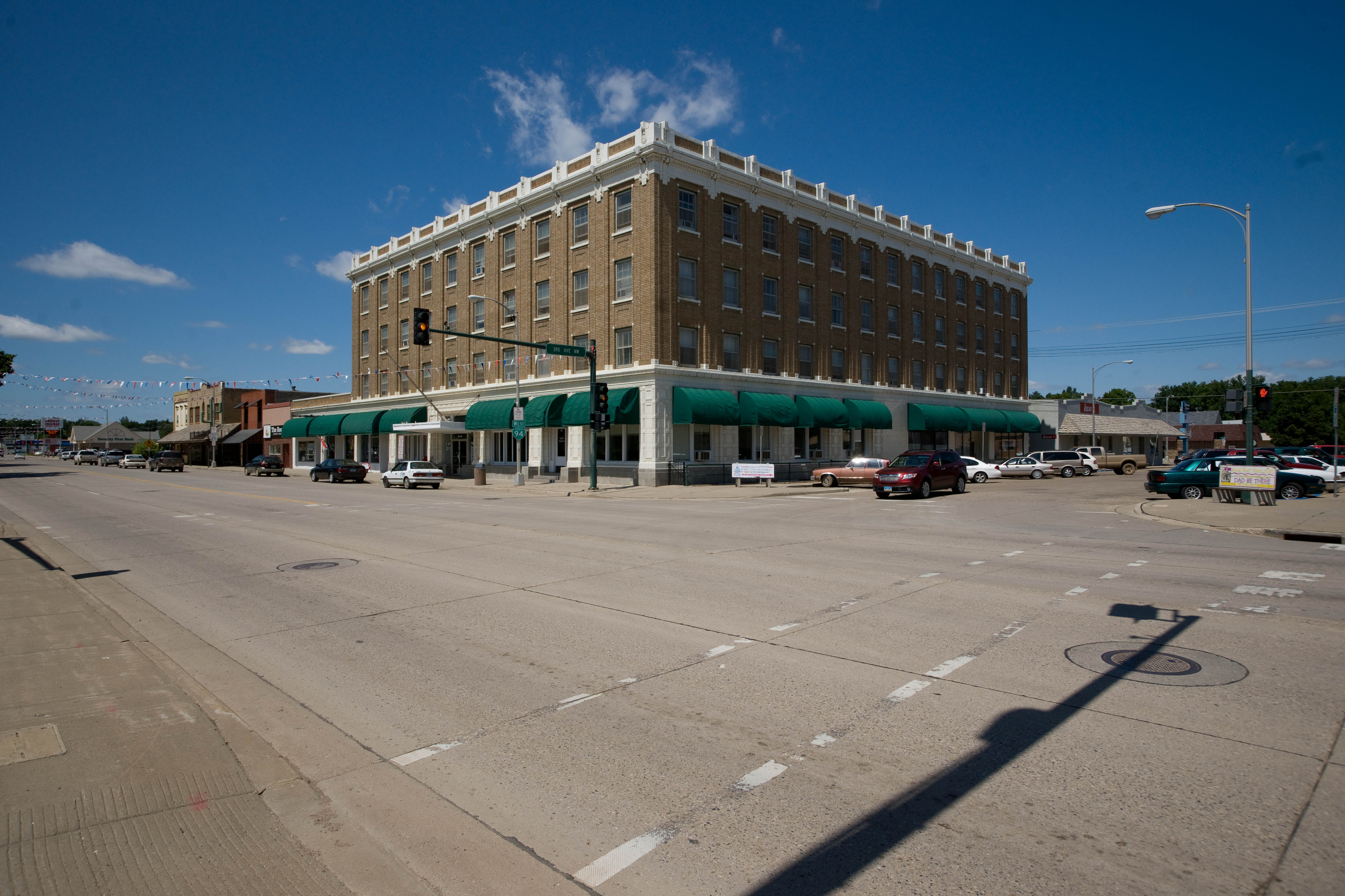 NRHP-listed Lewis and Clark Hotel in Mandan, North Dakota.